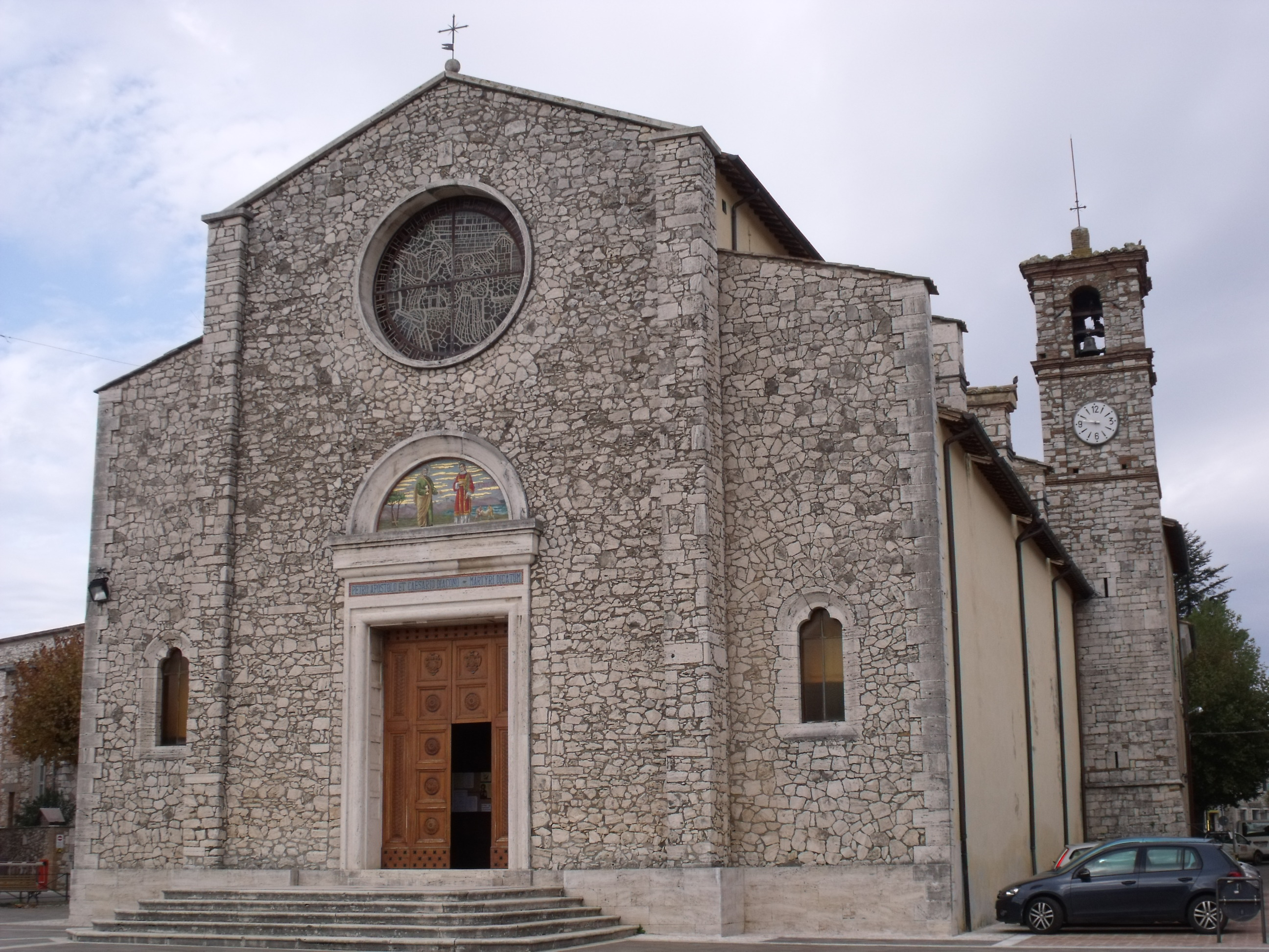 Church Chiesa dei Santi Pietro e Cesareo in Guardea, Province of Terni, Umbria, Italy